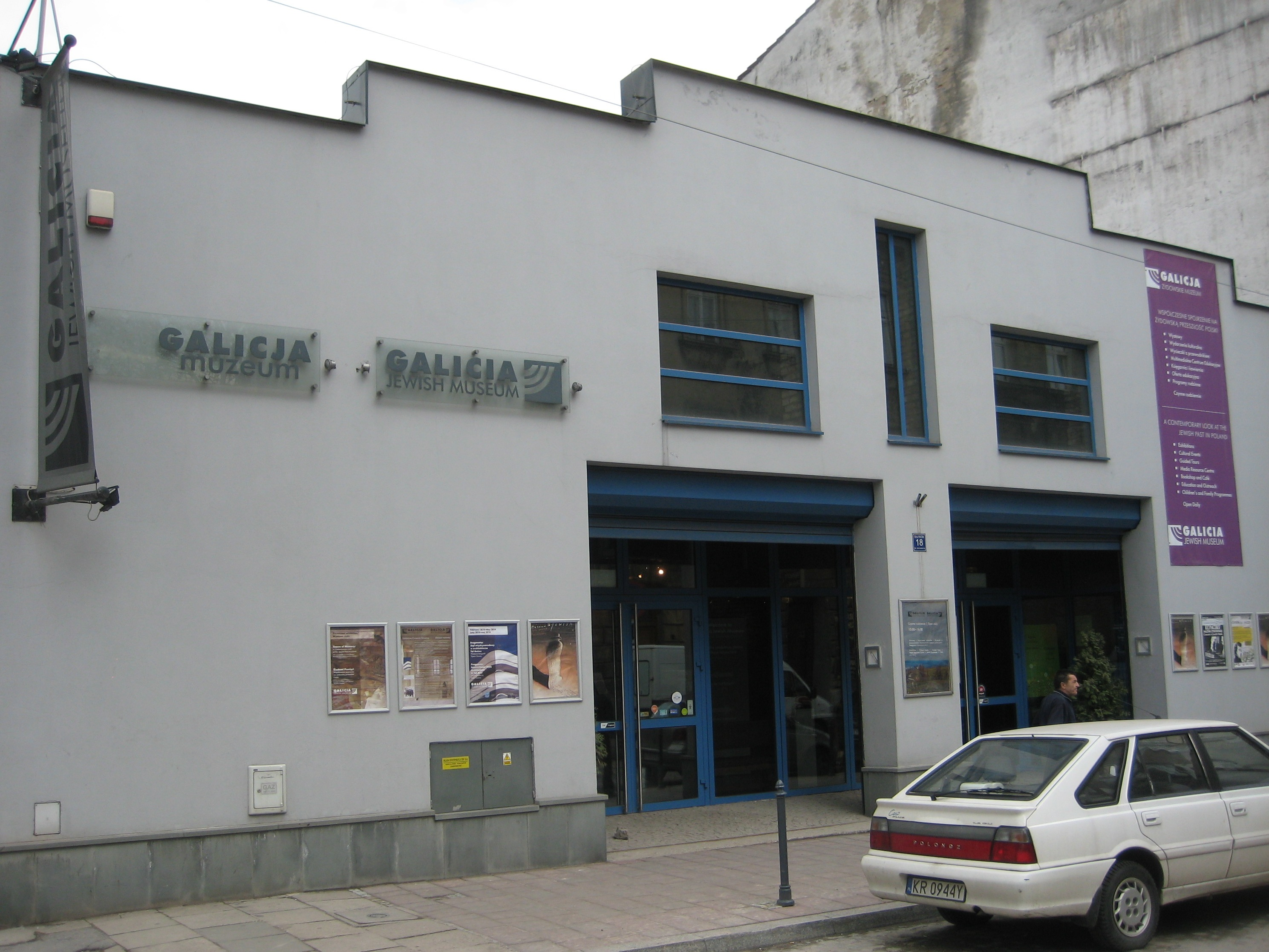 Galicia Jewish Museum located in the historical Jewish district of Kazimierz in Kraków, Poland.